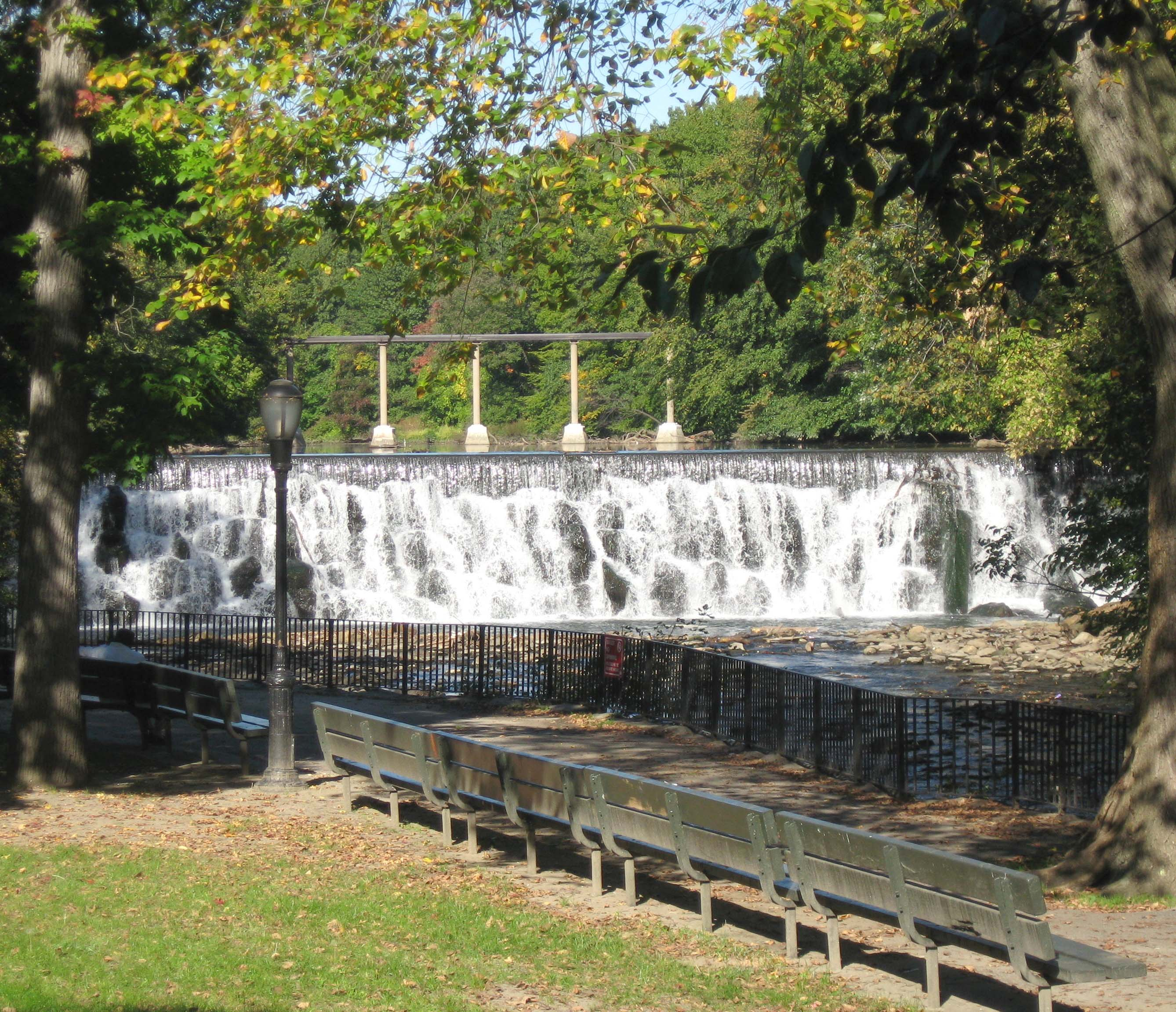 Looking upstream at Bronx River dam at the south end of Bronx Park with monorail on a sunny midday. ZIP 10060.